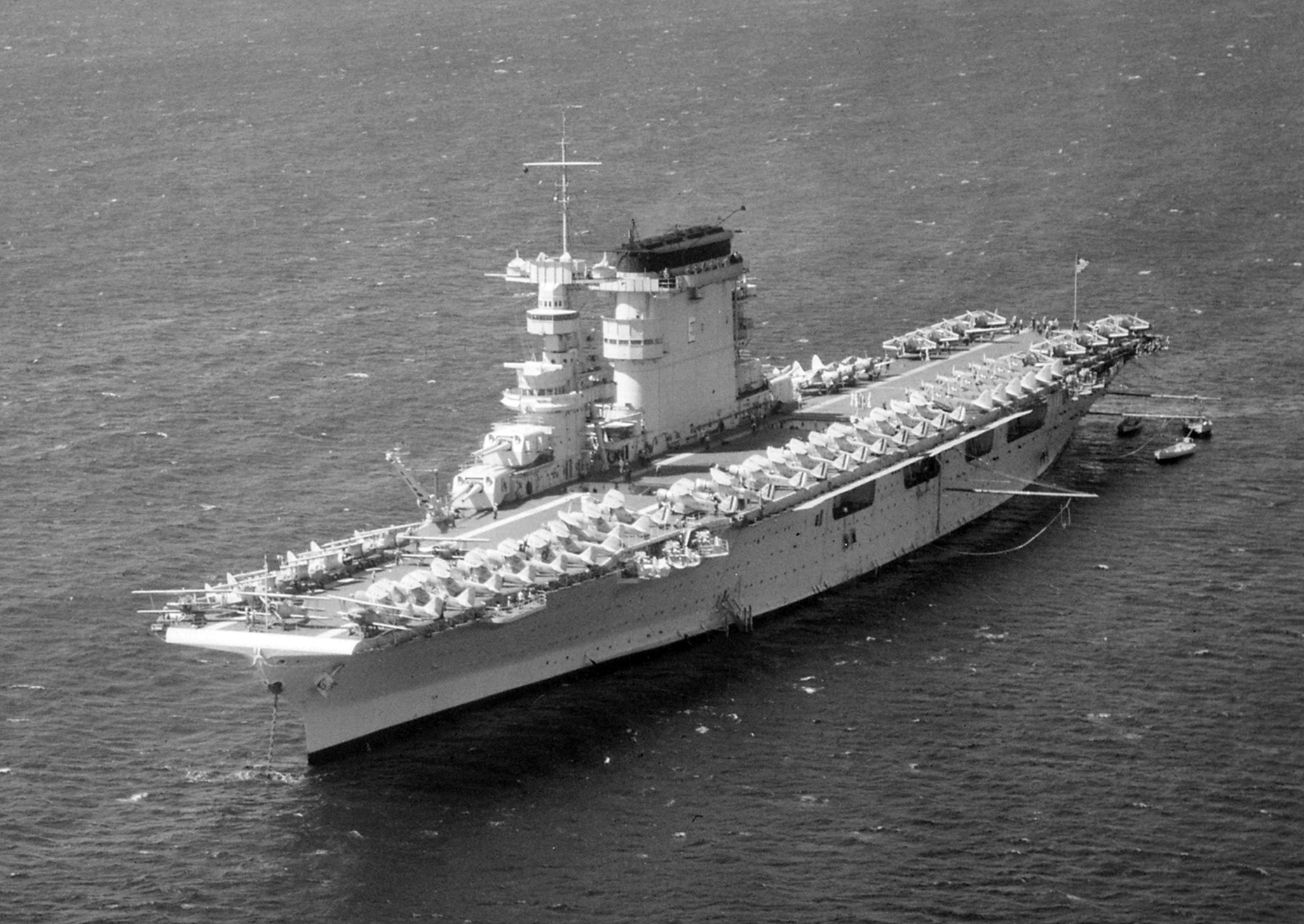 The U.S. Navy aircraft carrier USS Lexington (CV-2) at anchor, in 1938.